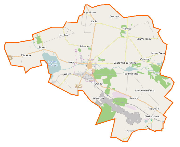 Map of Gmina Barcin, Poland This map of Barcin (gmina) was created from OpenStreetMap project data, collected by the community. This map may be incomplete, and may contain errors. Don't rely solely on it for navigation. Border coordinates52.921717.8171←↕→18.079052.7924